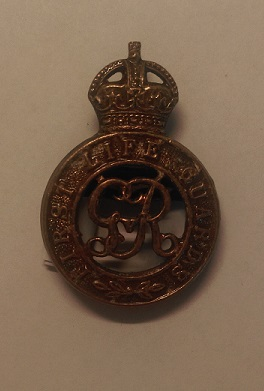 Photo of 1st Regiment of Life Guards Cap Badge from personal collection